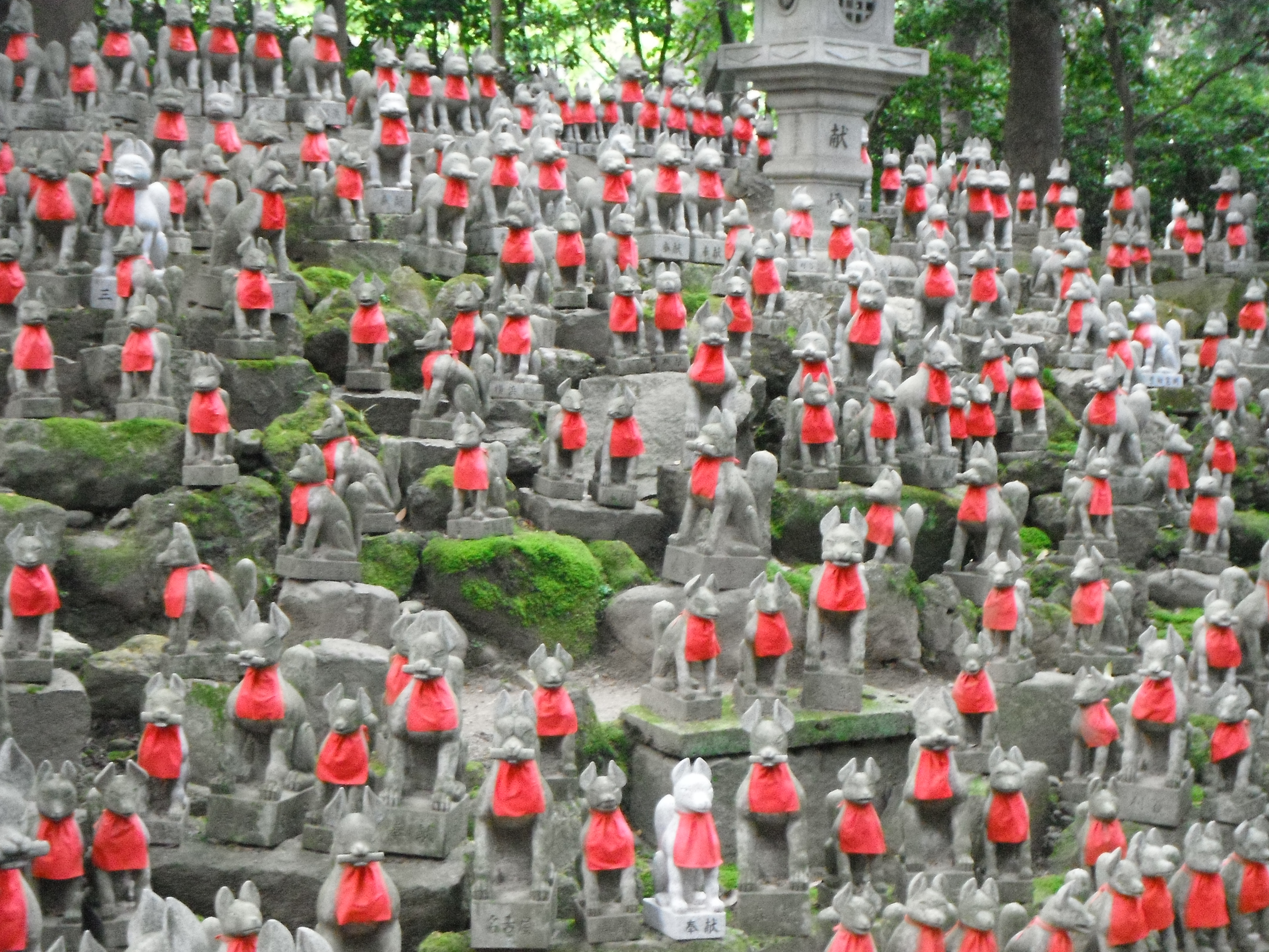 Reiko-Zuka(Toyokawa Inari)